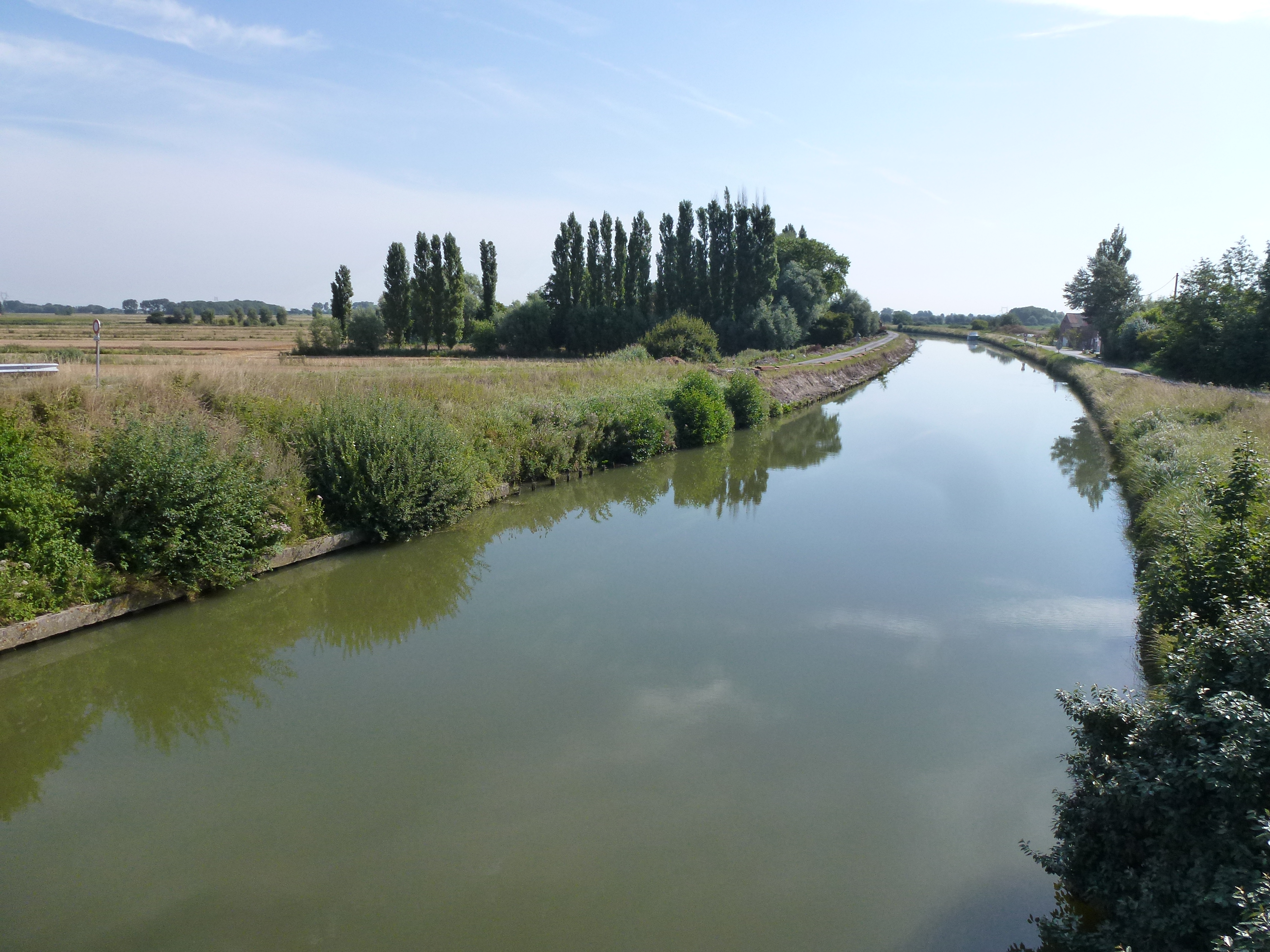 Ruminghem (Pas-de-Calais) Canal de Calais